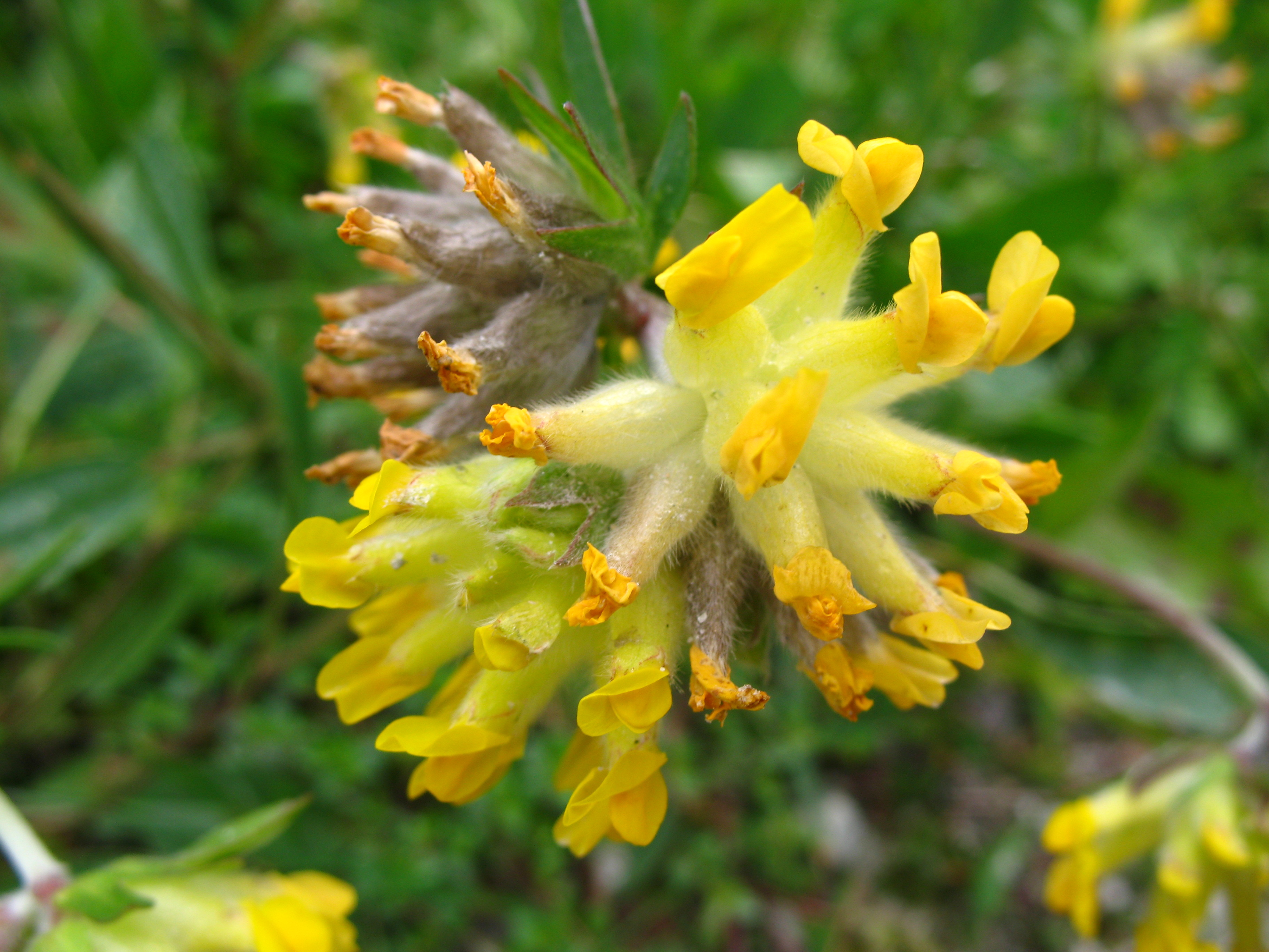 Kidney vetch (Anthyllis vulneraria), Hohe Tauern National Park, Austria